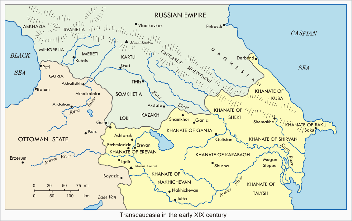 Transcaucasia in the early XIX century. Based on the original source: "Russian Azerbaijan, 1905-1920: The shaping of national identity in a muslim community" Chapter: Maps Original map: "Transcaucasia in the early nineteenth century" Author: Tadeusz Swietochowski Cambridge University Press, 1985 ISBN 0 521 26310 7 hardback ISBN 0 521 52245 5 paperback